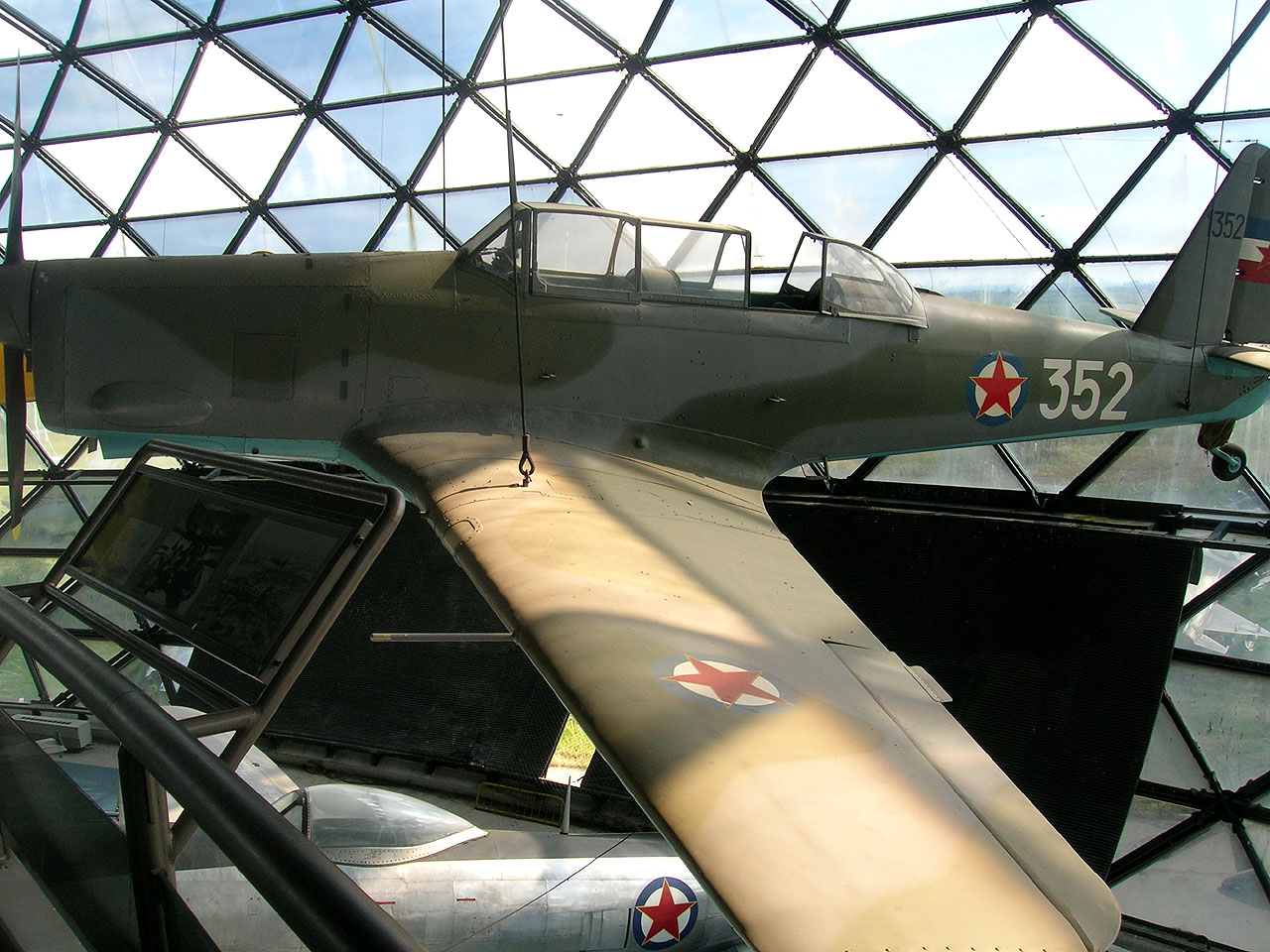 Utva 213 in Belgrade Aviation Museum. Author of the picture is user Marko M.